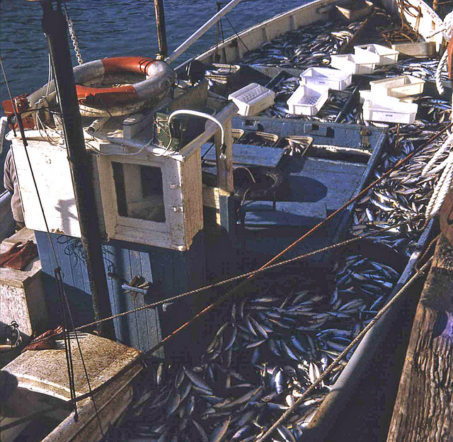 Mackerel boat at Looe. Tied up on the east side of the river, this boat was unloading in 1971. When I was growing up in Cornwall, we frequently visited Looe to buy a box of fish direct from the skipper, take it home and have some for tea. Can't beat the taste of really fresh fish!